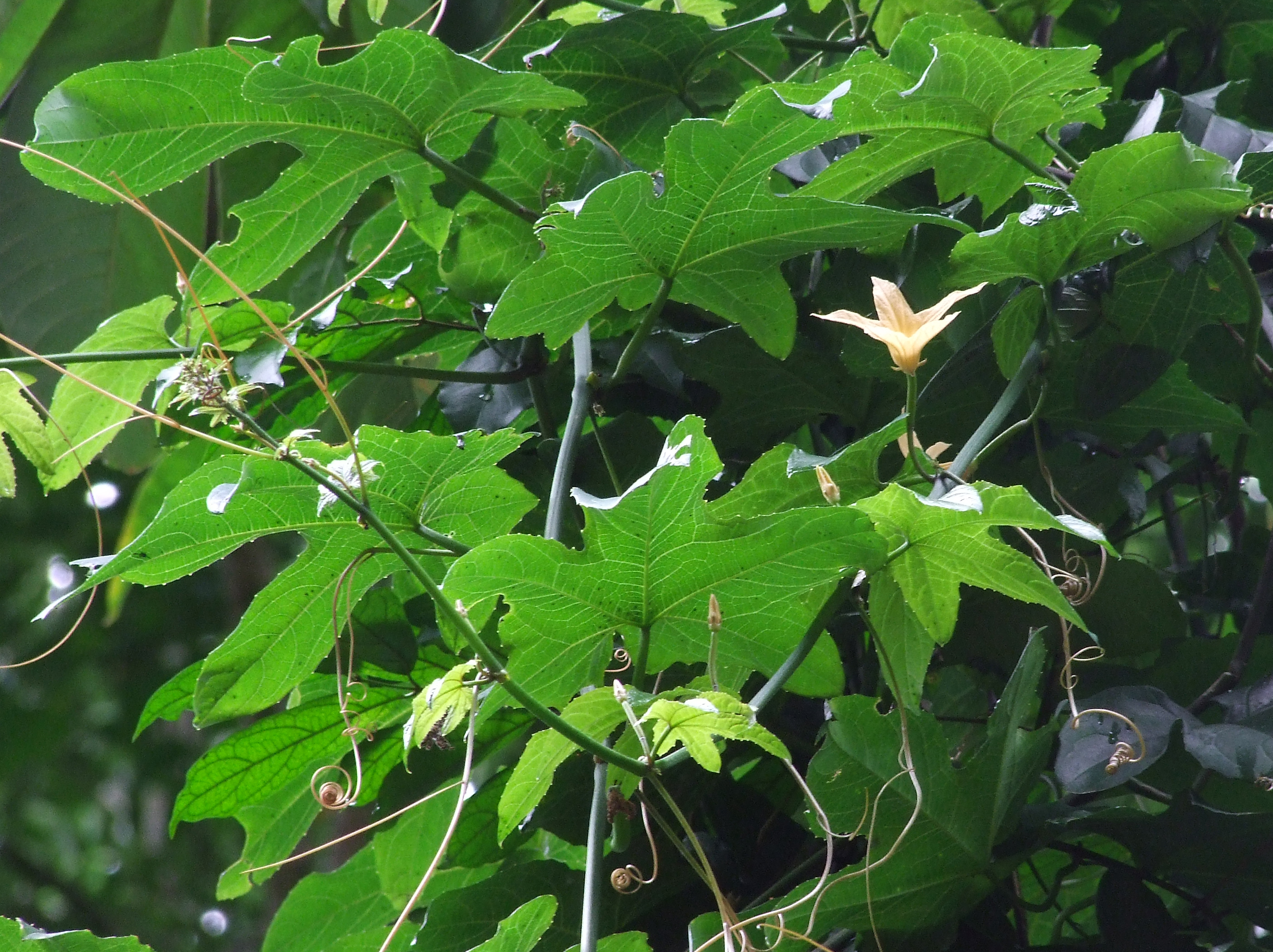 female plant of Coccinia grandiflora Cogn.; c. 50 m before gate of headquarters of Amani, Tanga Region, Tanzania